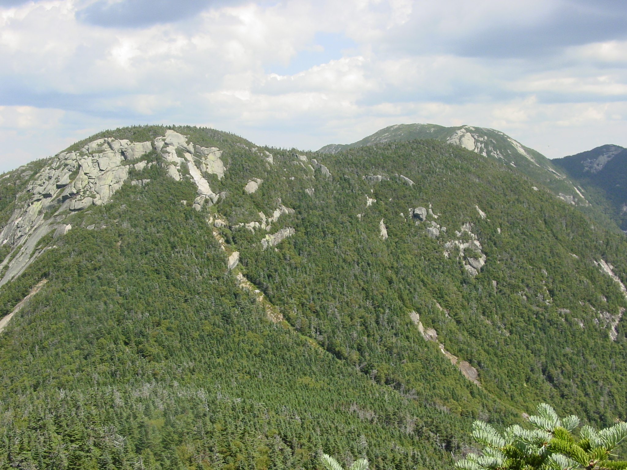 This is a picture of Saddleback Mountain in the Adirondack High Peaks region, taken from the southwest during the ascent of Basin Mountain. It shows the distinctive "saddle" shape of the mountain, with the "false" or lower summit on the right(east) and the "true" or higher summit on the left (west).